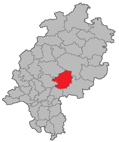 Map of the district court Büdingen in Hesse